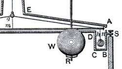 This is a detail of a cross section drawing from Henry Cavendish's 1798 paper published in Philosophical Magazine. This is a scientific paper with no copyright restrictions.